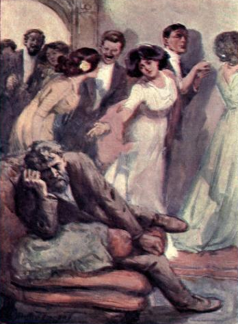 Book illustration